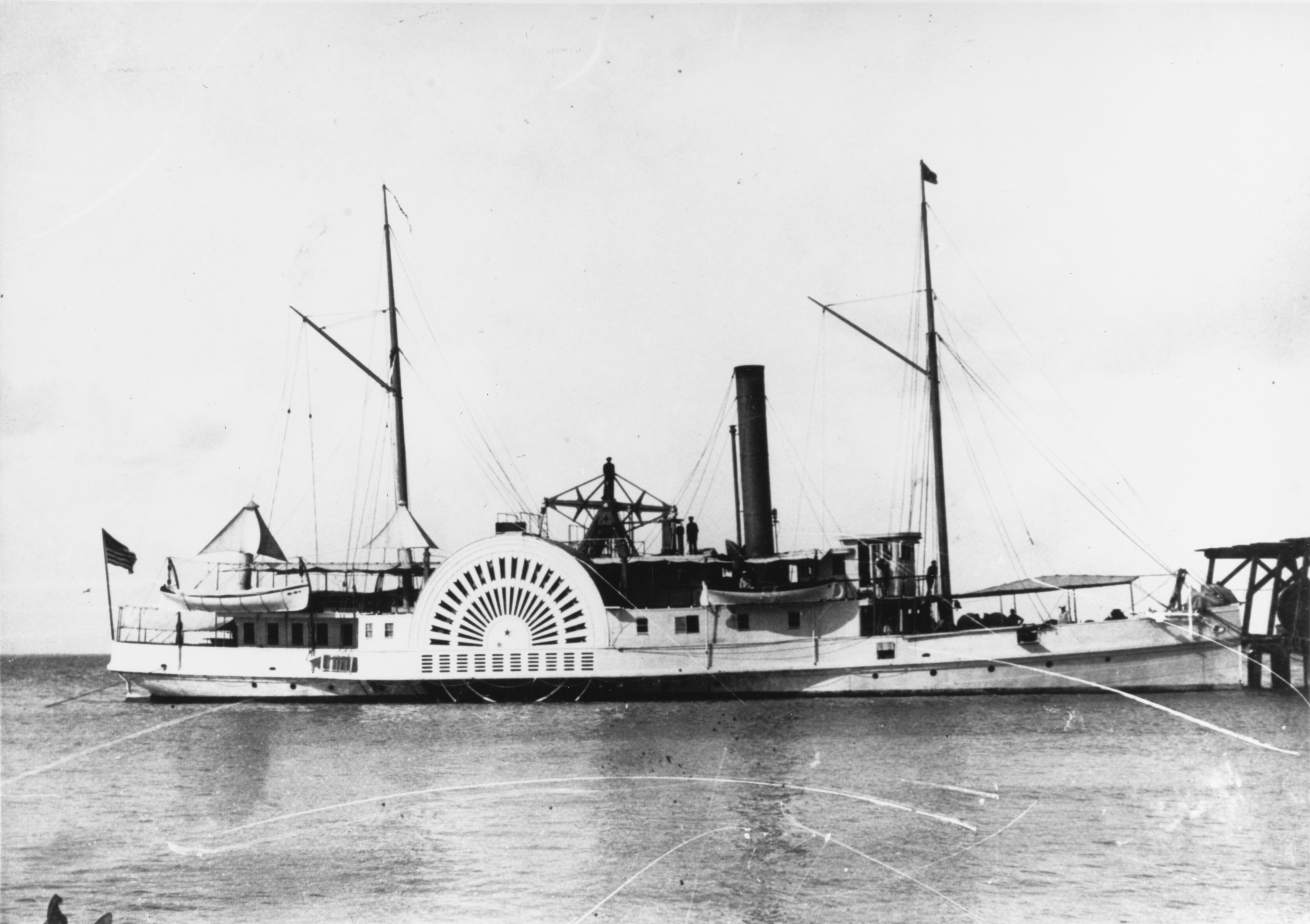 USRC Lois McLane, photographed during the last decades of the 19th century. The steamboat served as USS Delaware from 1861-65.